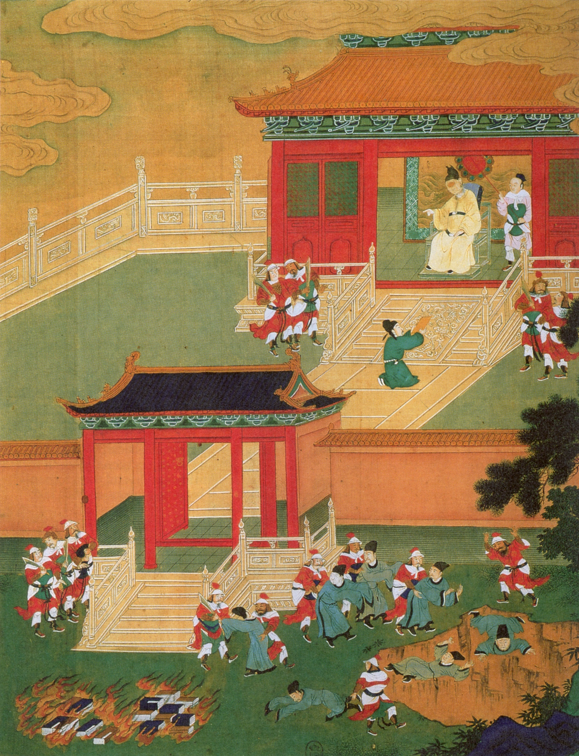 Burning of books and burying of scholars.